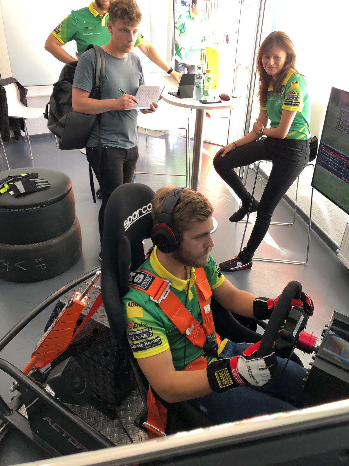 DAMC 05 driver during SimRacing competition